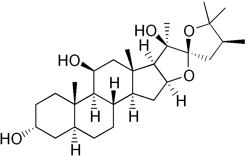 chemical structure of hippuristanol